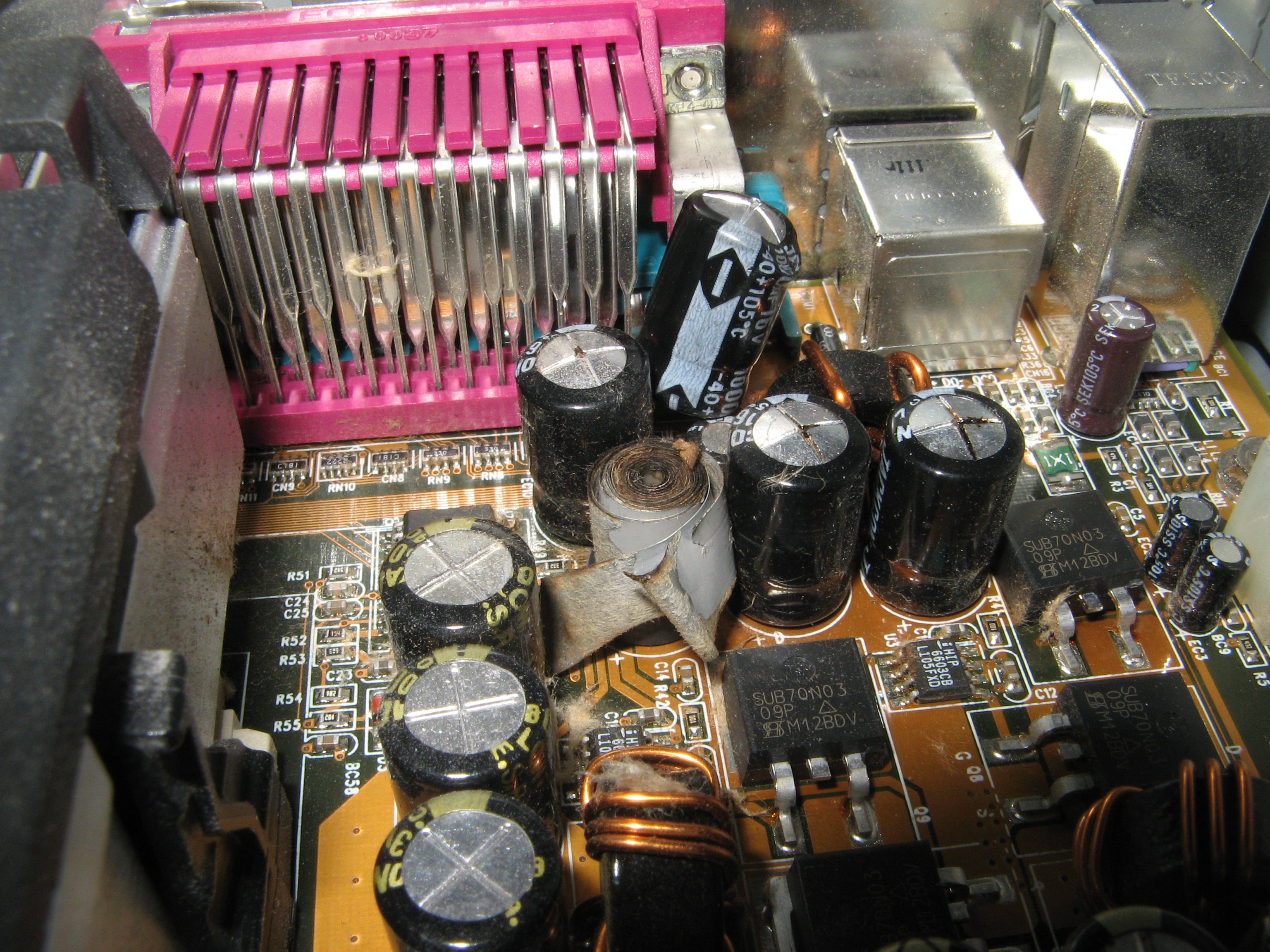 Photo of a ABIT VP6 motherboard with a blown capacitor (due to "capacitor plague"), alongside several other capacitors that are bulging or leaking.